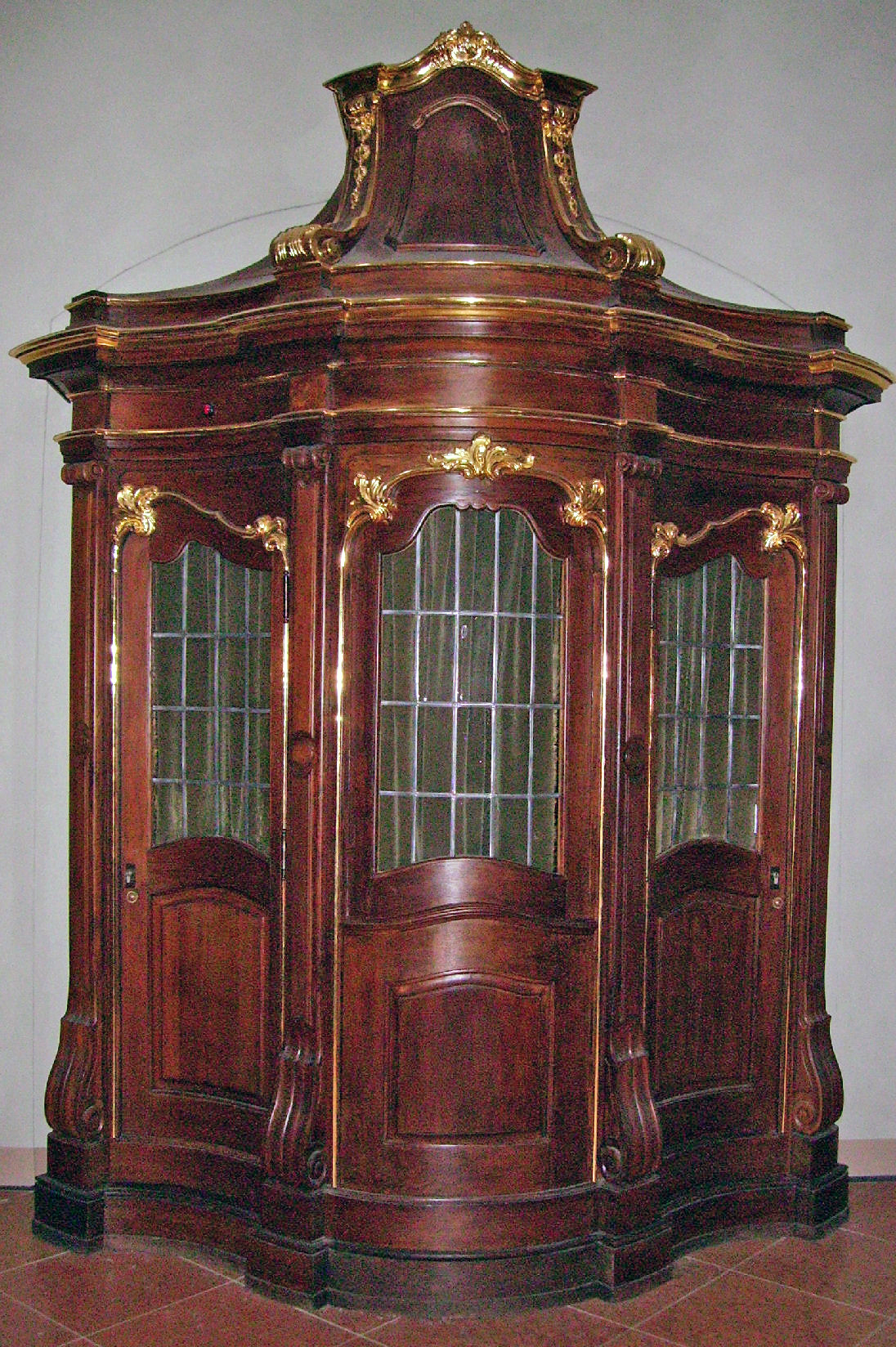 Jesuit church in Mannheim, Germany